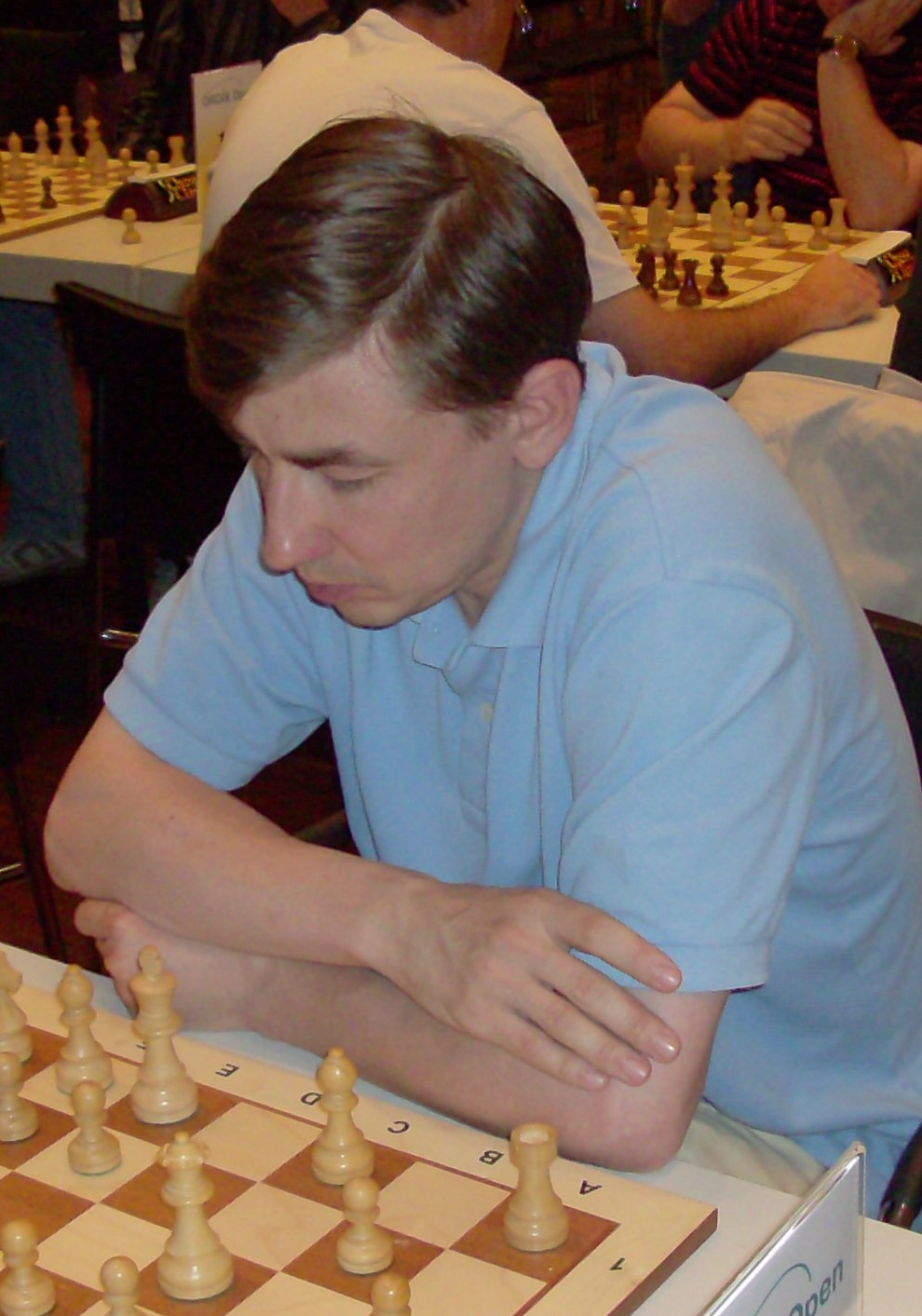 Evgeny Bareev, 2008